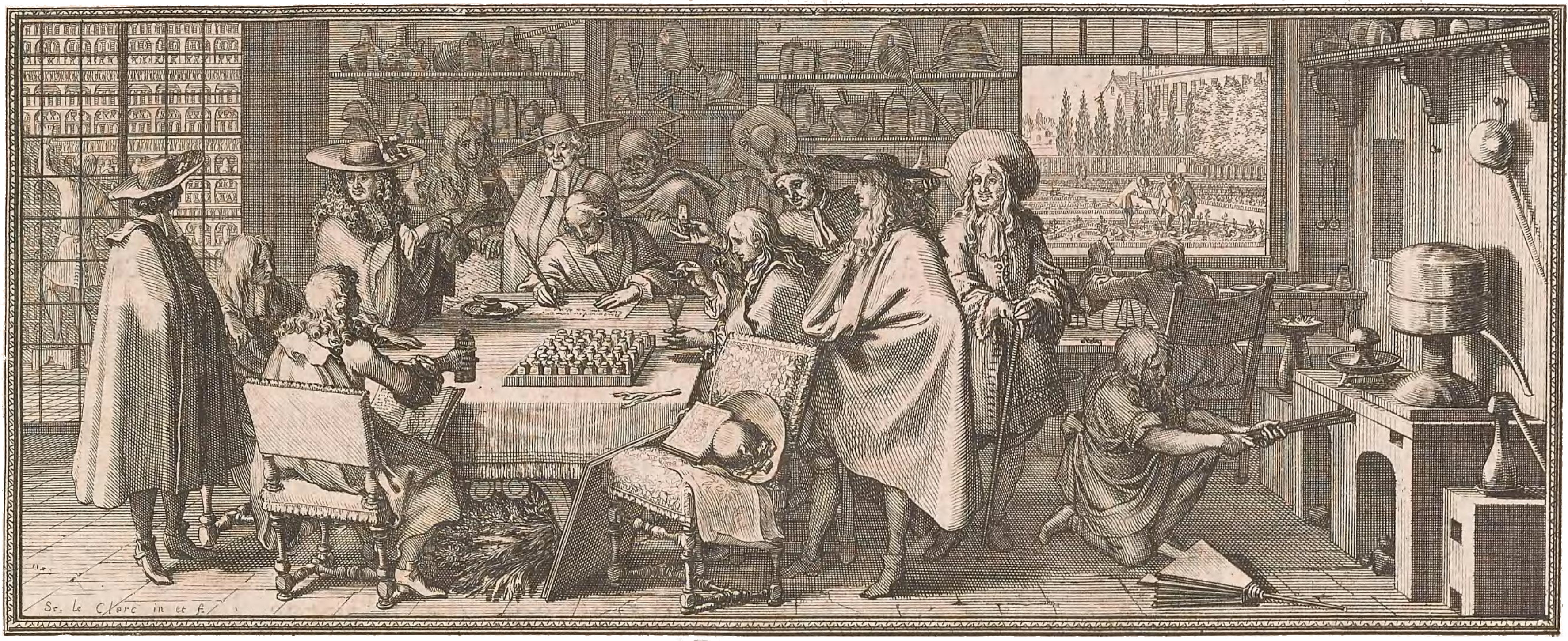 The Chemical Laboratory of the Academy. Among the academicians seated or standing around the table should be Bourdelin, Duclos, N. Marchant, and possibly Dodart, Du Hamel, and Gallois. The older man on the right who reaches toward the table with a vial in his right hand resembles portraits of Duclos. In the shelves behind academicians and visitors is apparatus, including on the top left an alembic and below it two aludels and a bell jar, and on the right, a mortar and pestle. One assistant works at the window with a balance, another at the furnace on which is an alembic at the far right.